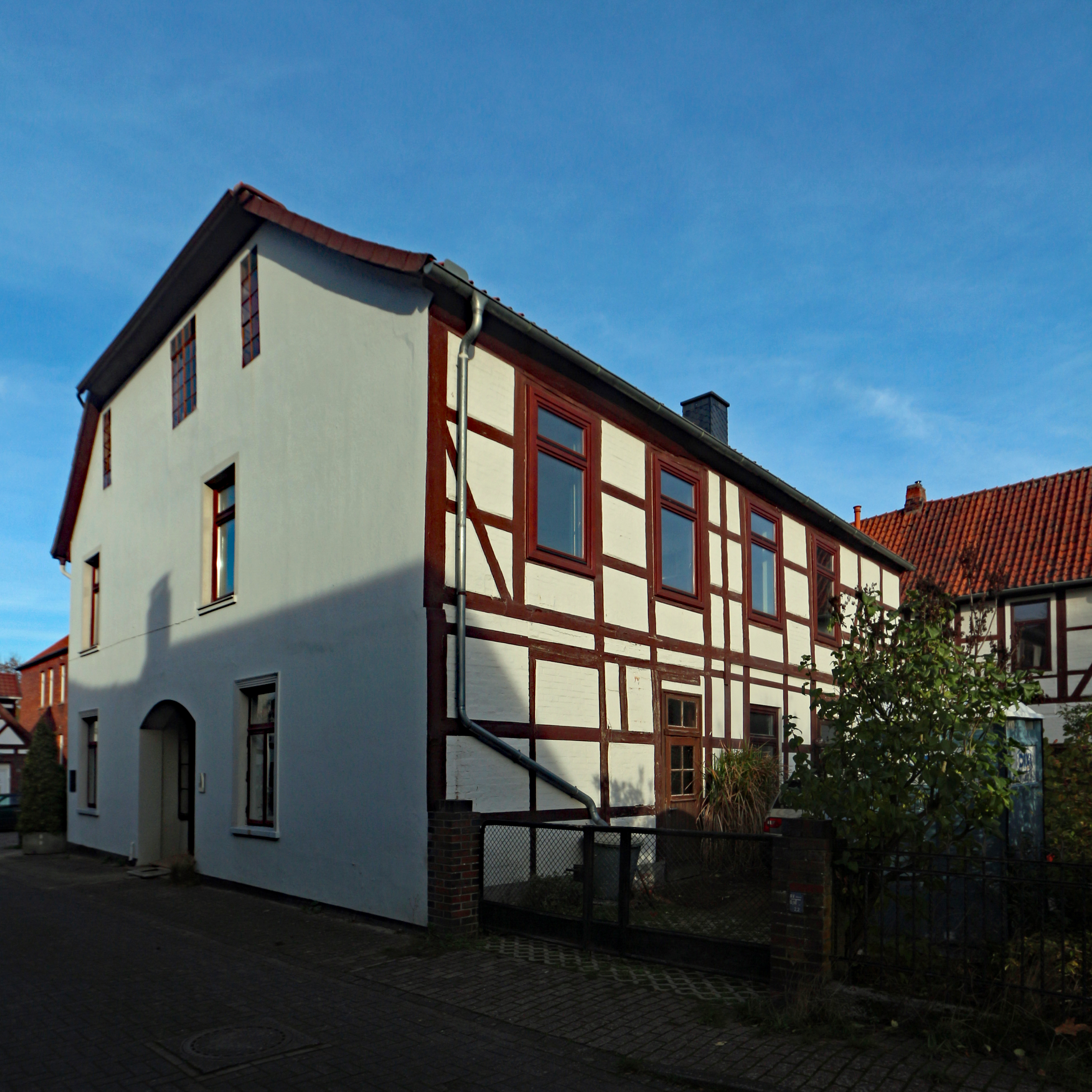 Mohrhoff-Haus in Hoya (Lower Saxony, Germany)